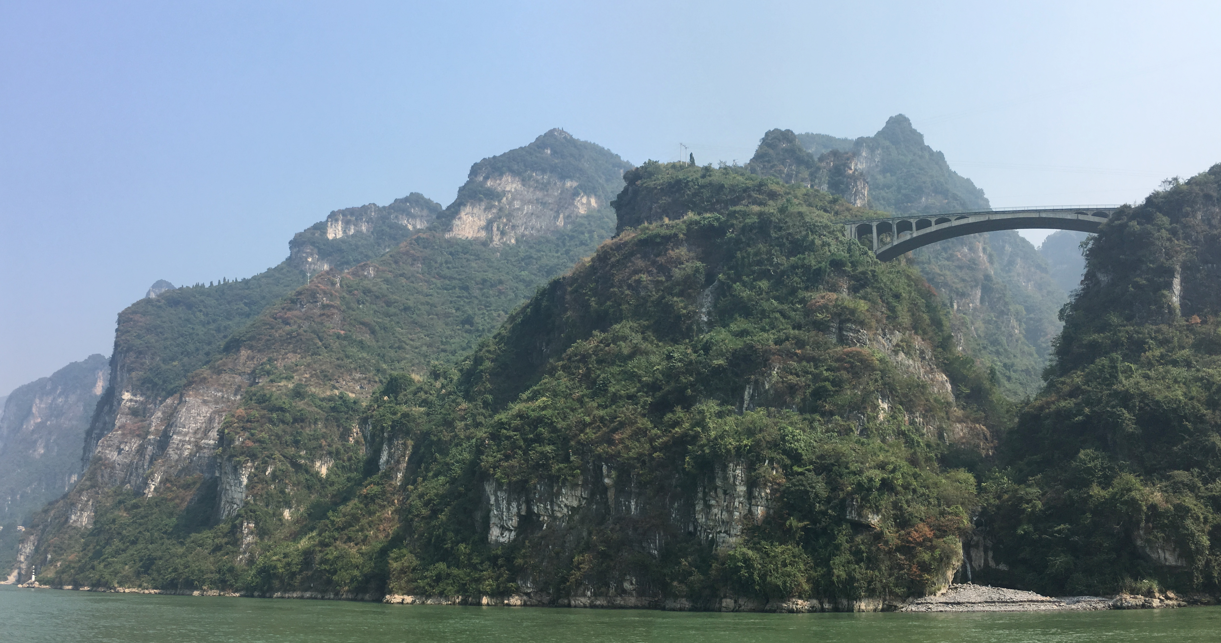 Xiling Gorge downstream of the Three Gorges Dam on the Yangtze River, China in October 2016